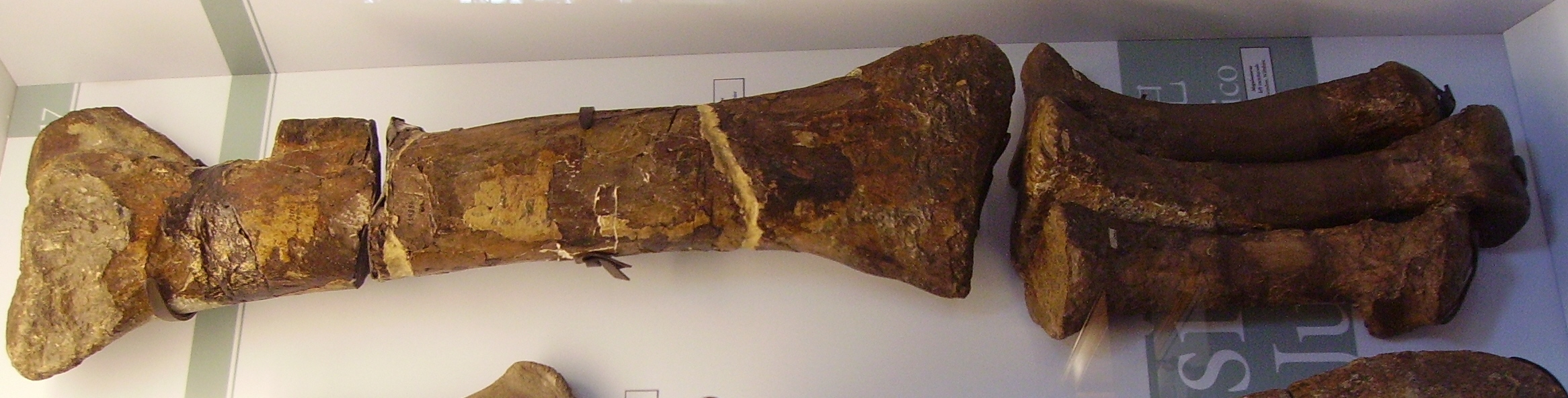 Megalosaurus right tibia (& left metatarsals) Oxford University Museum of Natural History